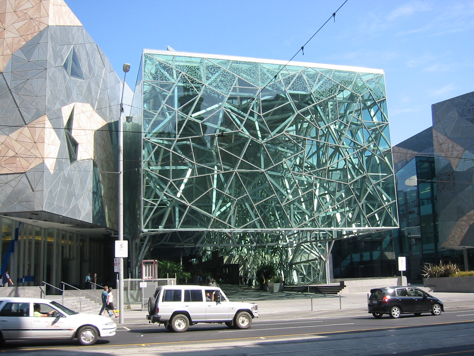 Blick auf den Eingang